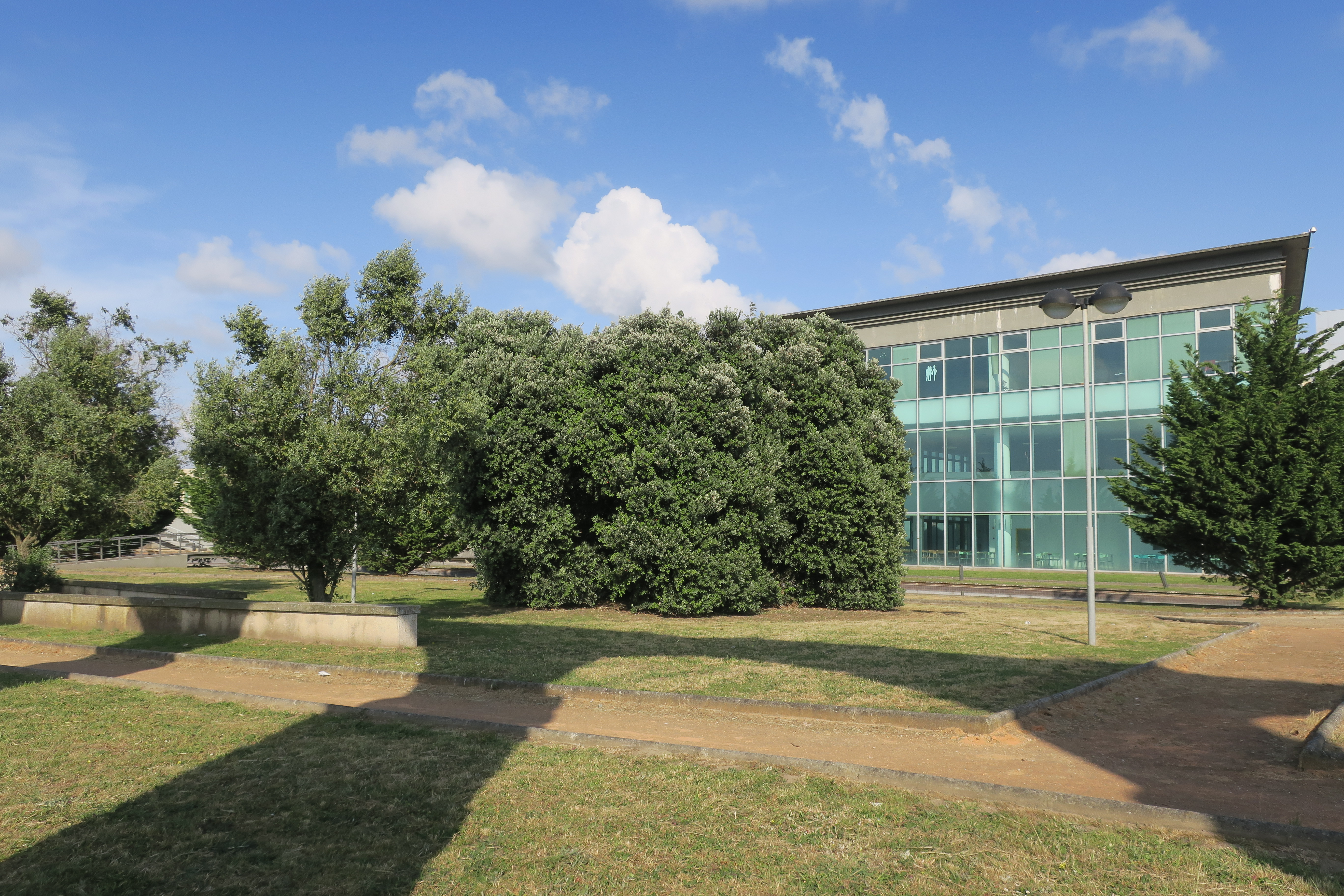 Porto Polytechnic campus 2 in Povoa de Varzim